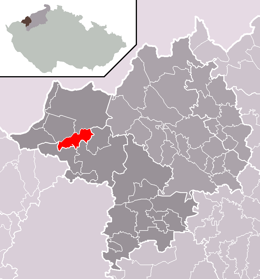 Location of Měděnec municipality within Chomutov District and administrative area of Kadaň as a Municipality with Extended Competence.